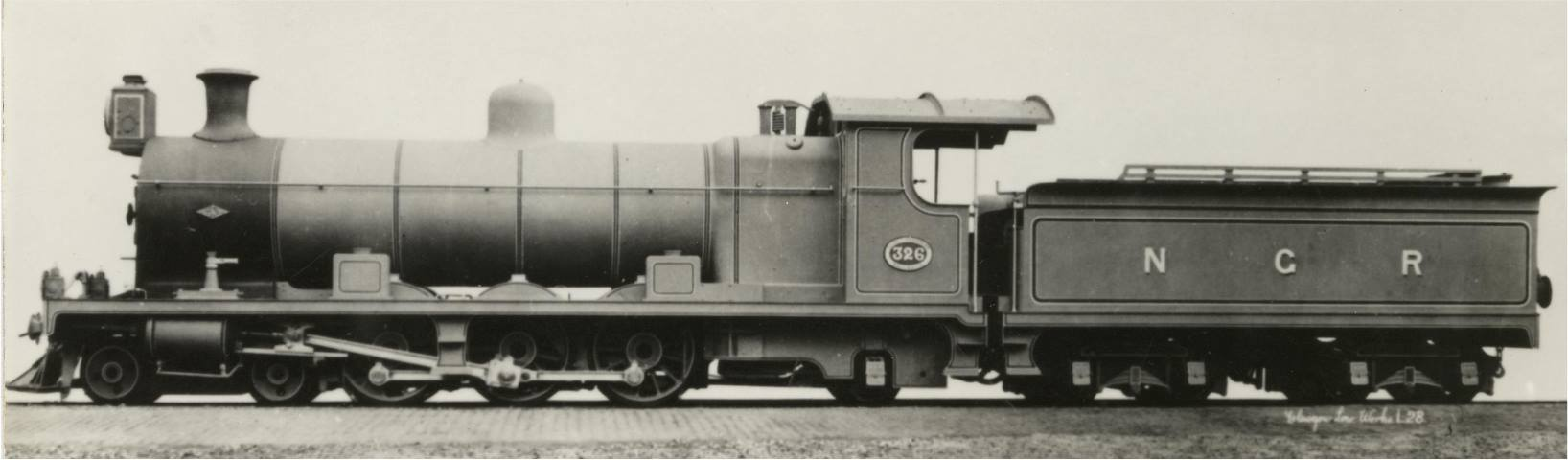 SAR Class 2, ex NGR no. 326 Hendrie A builders photo